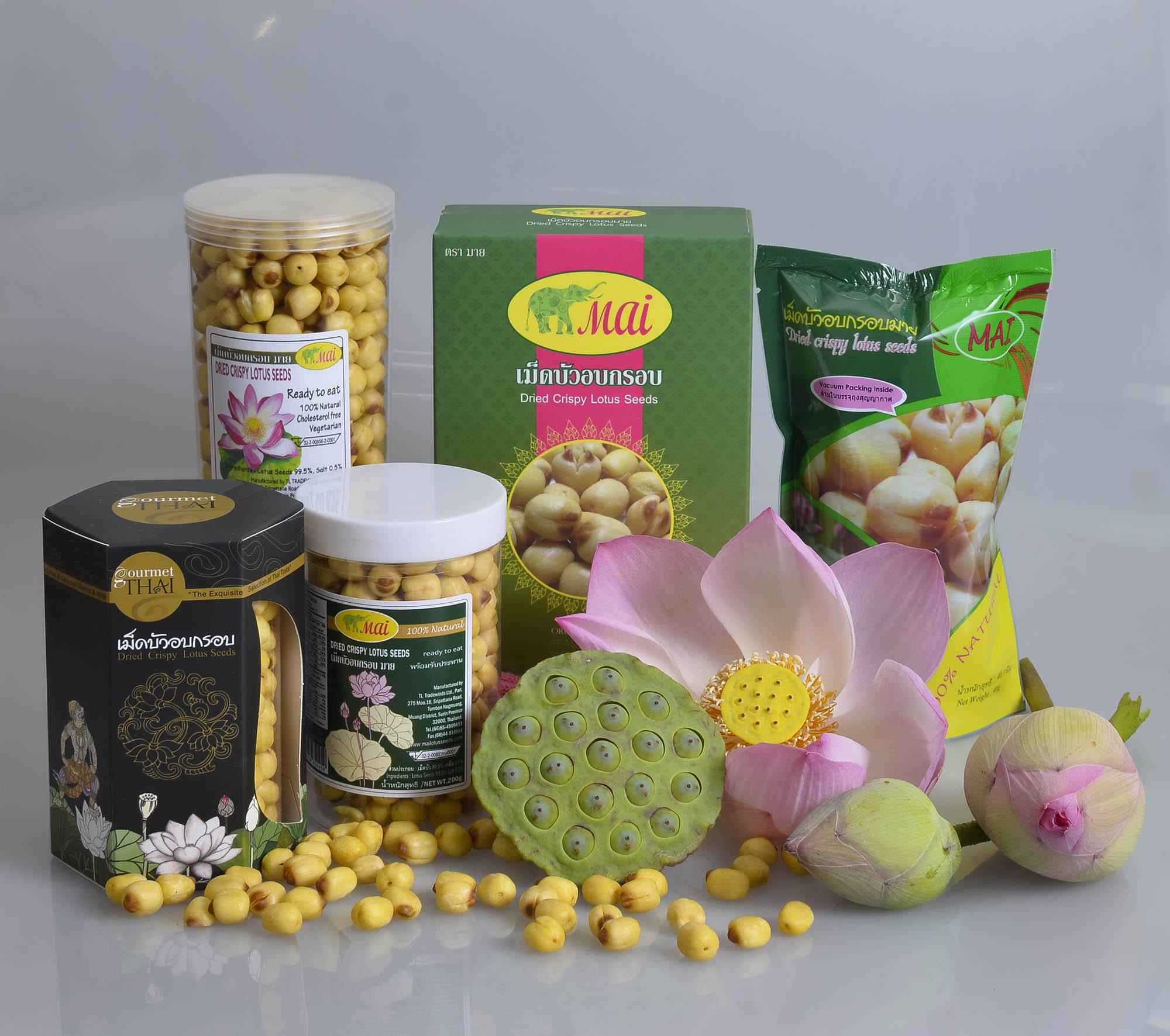 Dried lotus seed snack - Product of Surin City